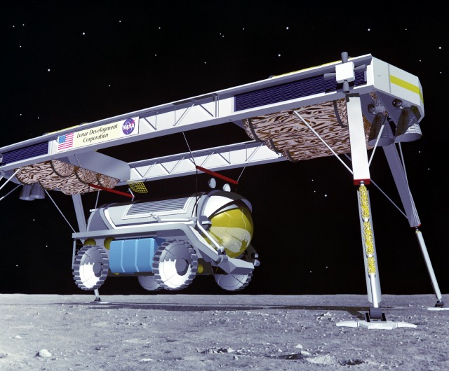 Artist's concept of possible exploration programs. A pressurized lunar rover is unloaded from a cargo lander. The rover will provide habitation volume for lunar crews, as well as extended exploration capabilities.